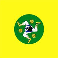 Flag/CoA of a Moldovan locality